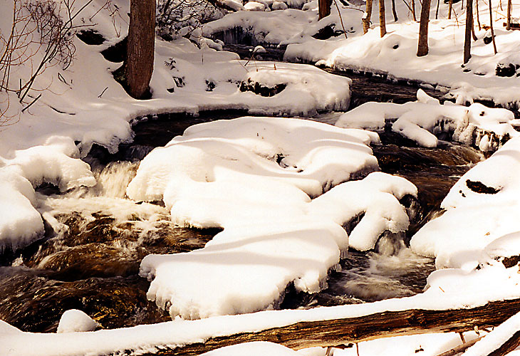 Bruce Trail - Halton, Ontario, Canada